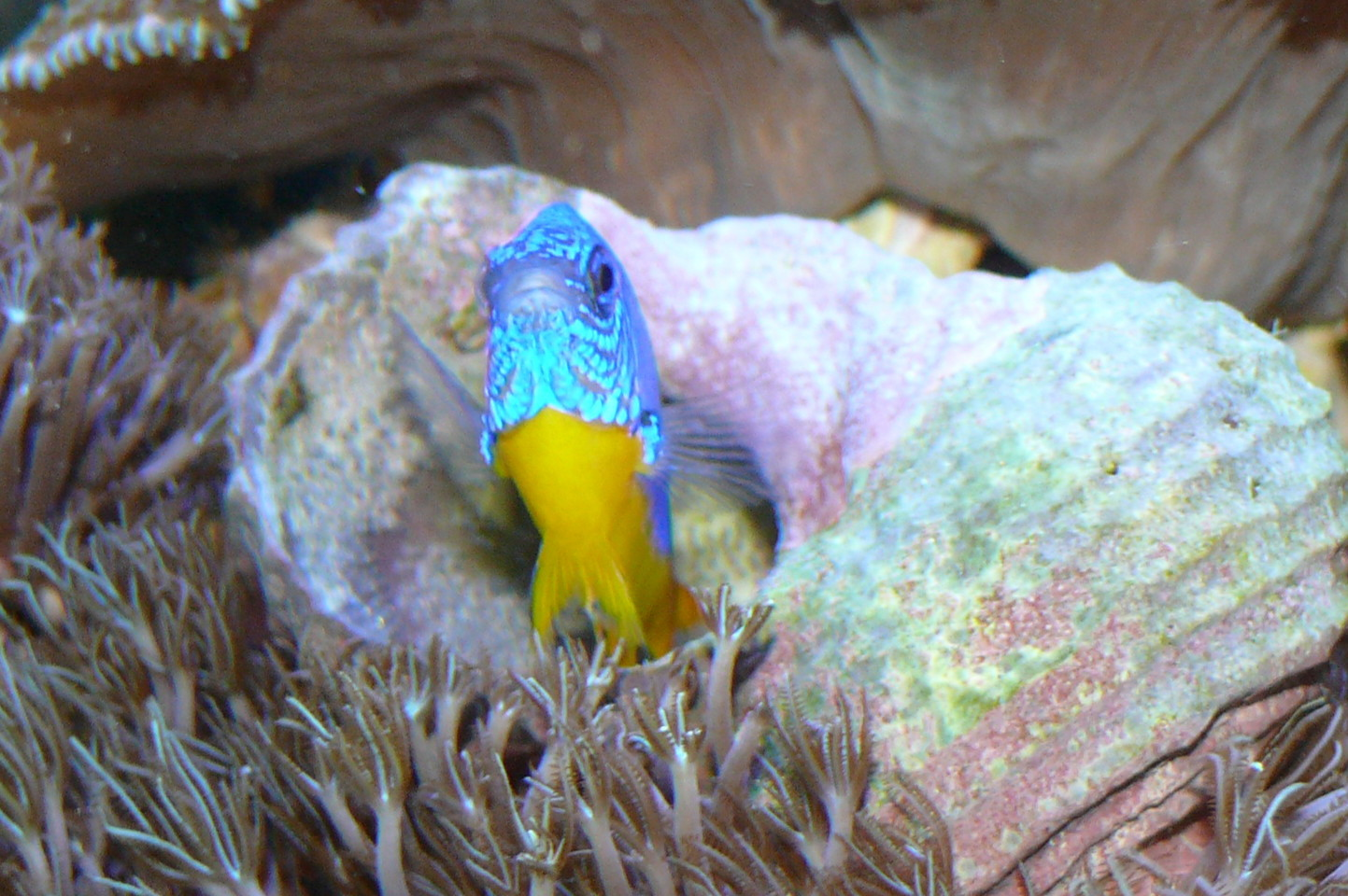 Chrysiptera hemicyanea